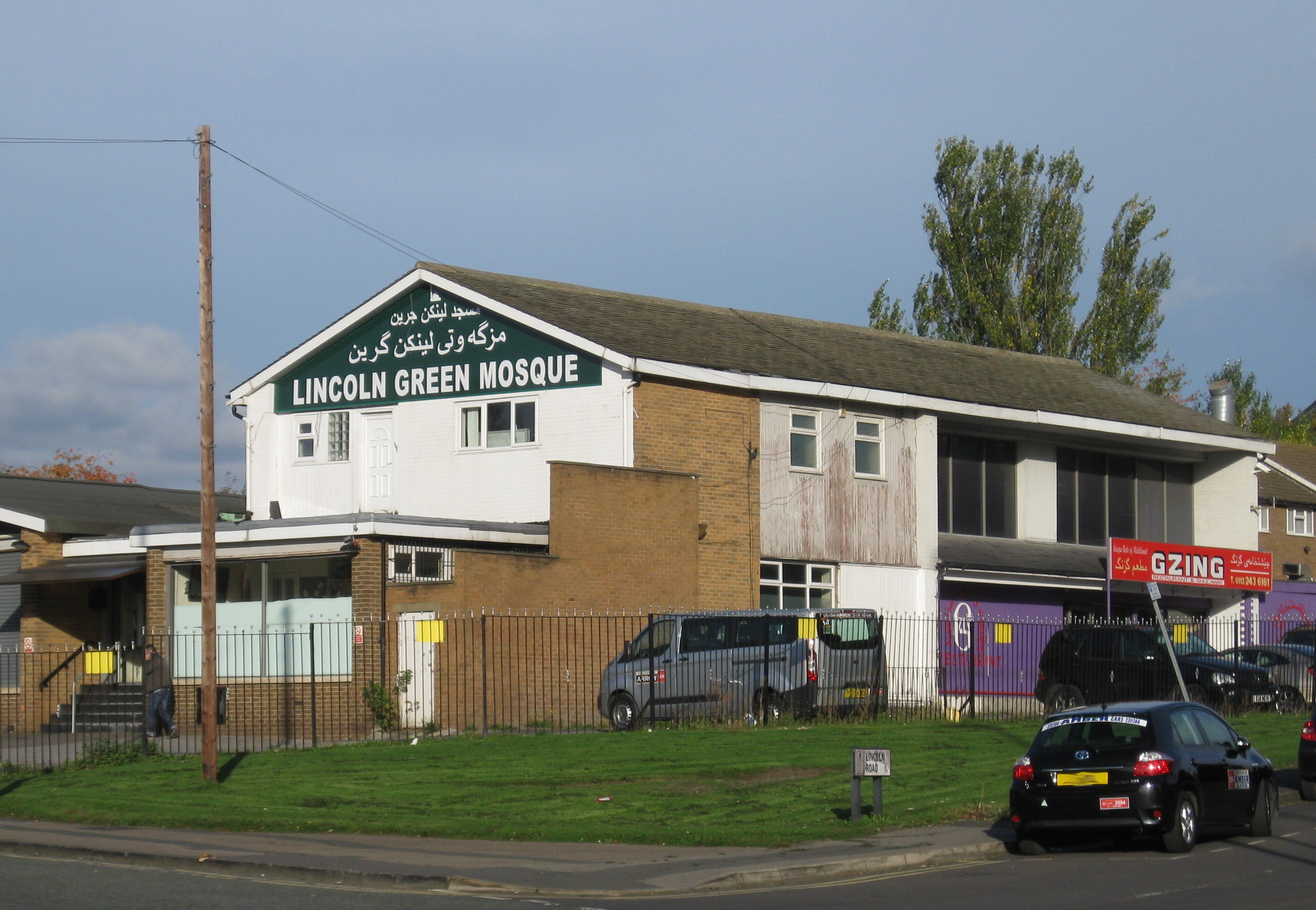 Lincoln Green Mosque, Cherry Row, Leeds LS9 7LY